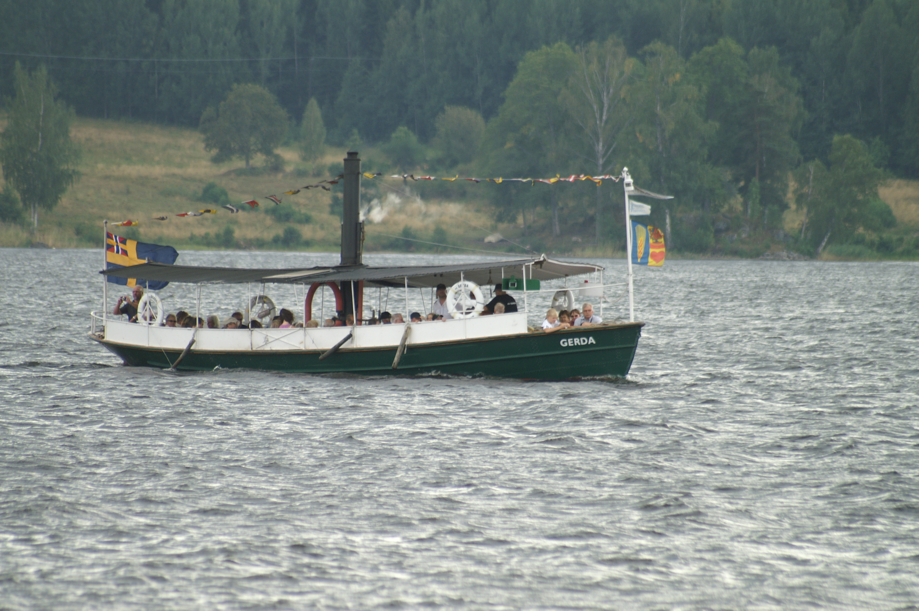 SS Gerda going towards the landing-stage by the church in Näshulta This is an image of the protected Swedish ship SS Gerda, with call sign SFC 4960 .